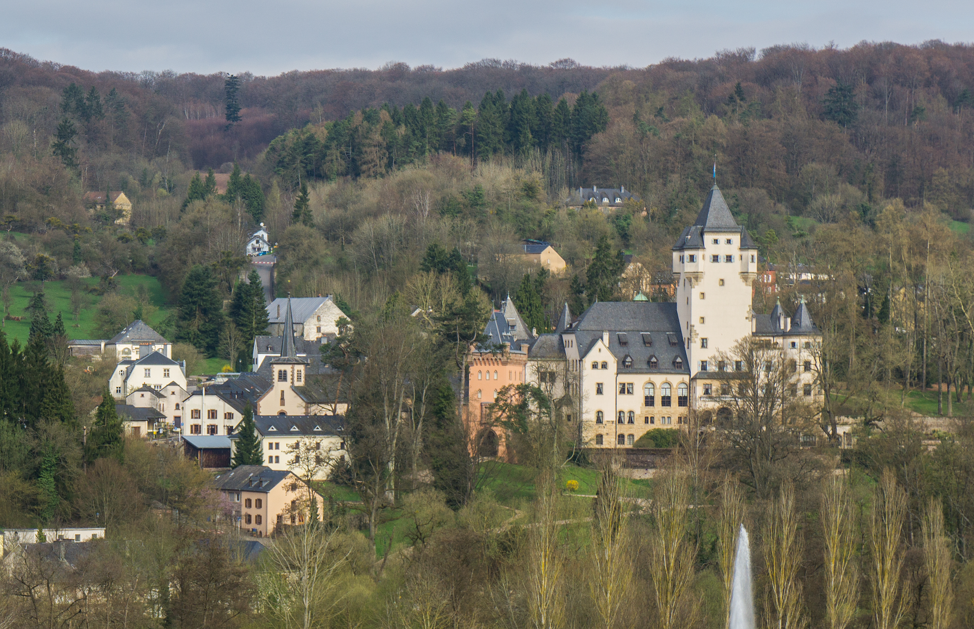 Berg and Castle Berg seen from the N7